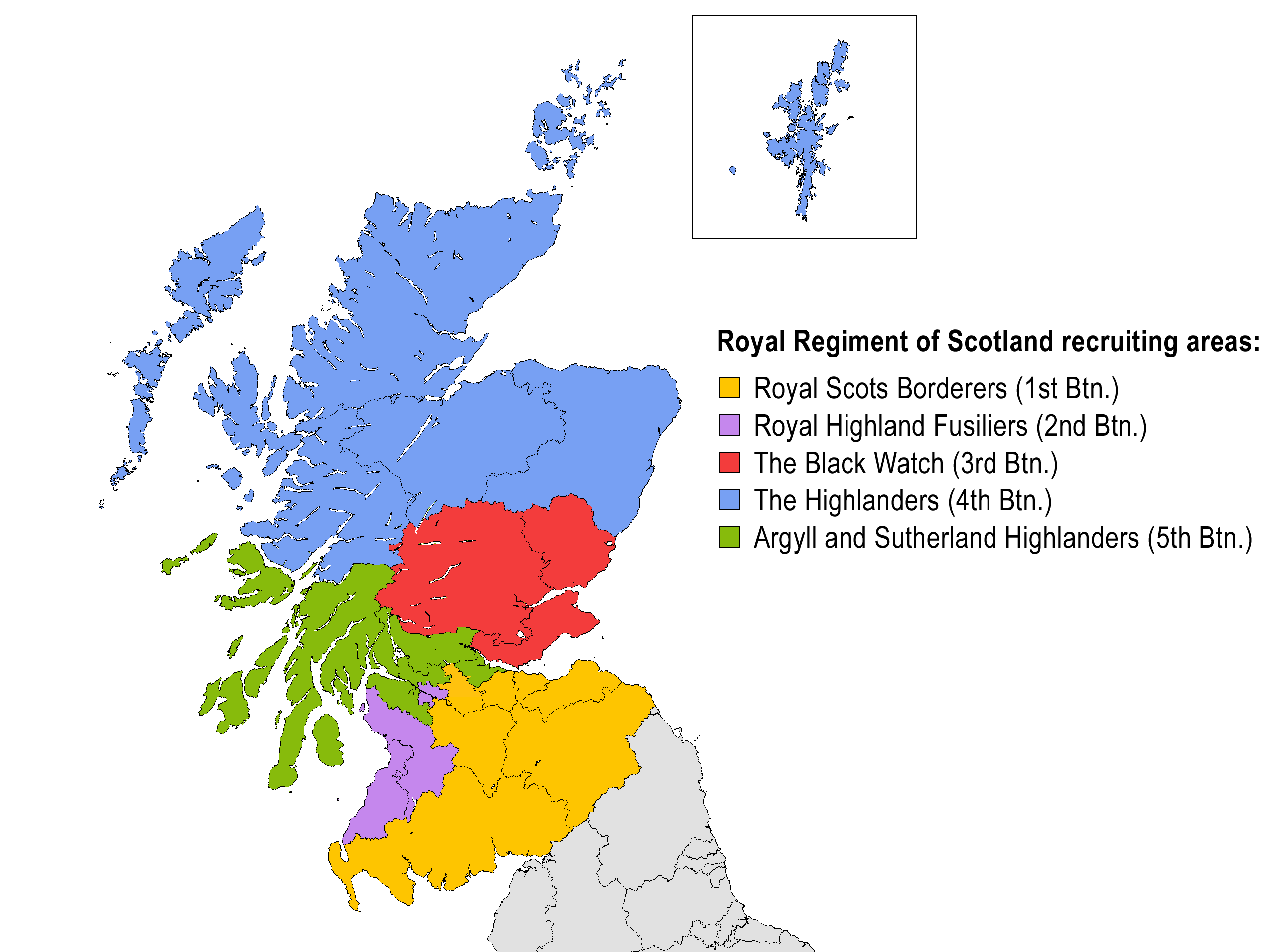 British Army: Royal Regiment of Scotland recruiting areas